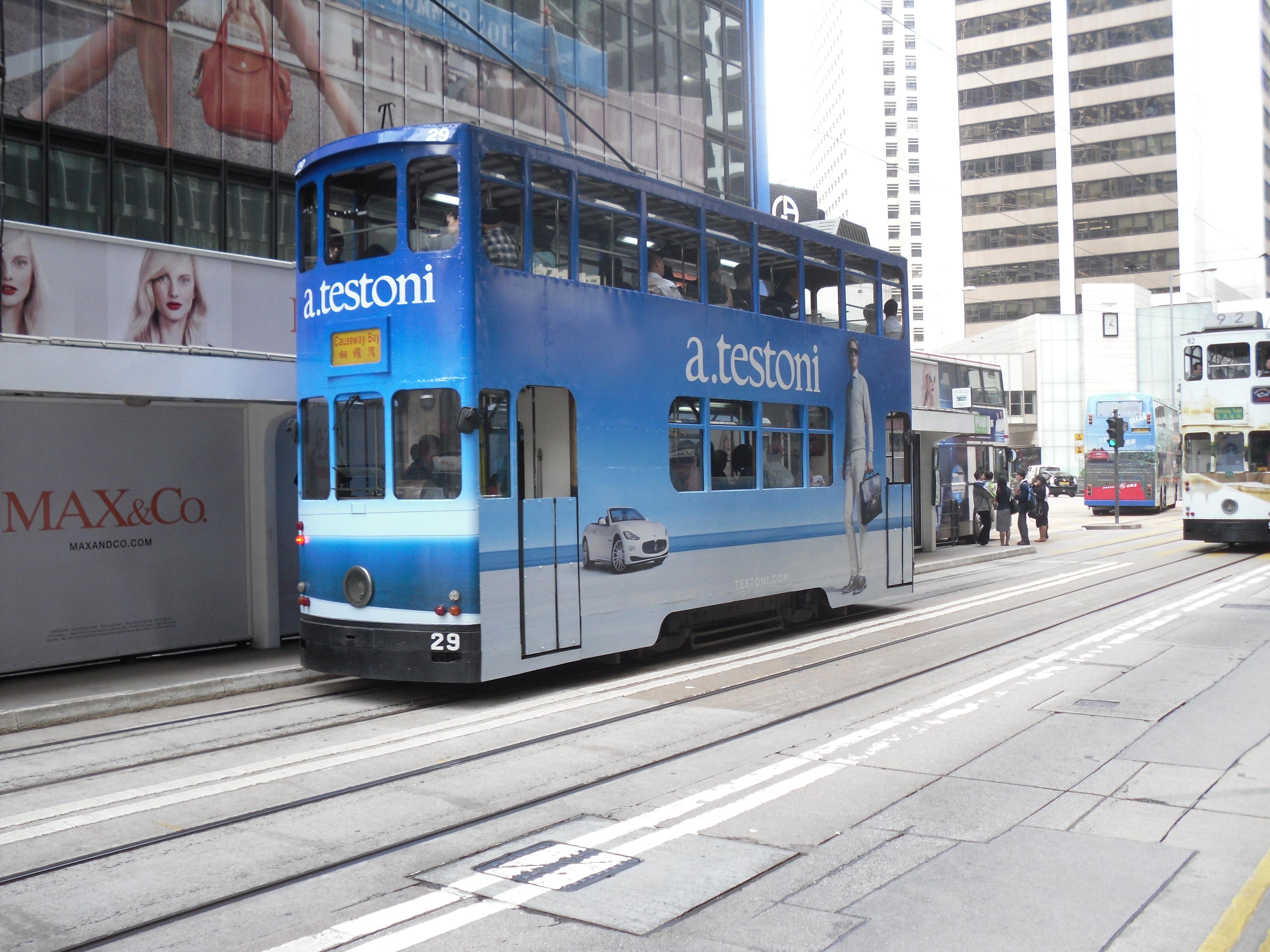 Hong Kong Tram